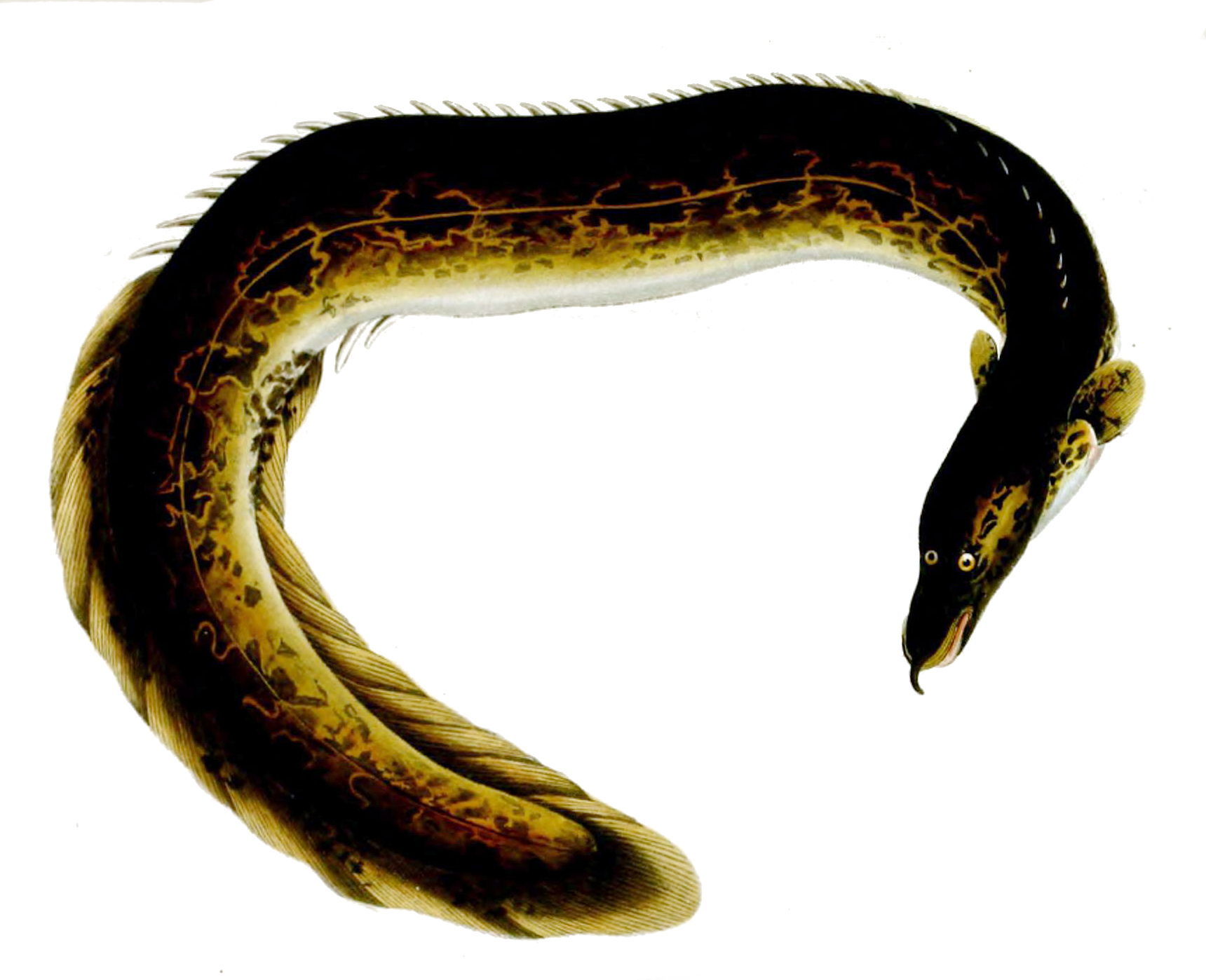 Mastacembulus armatus